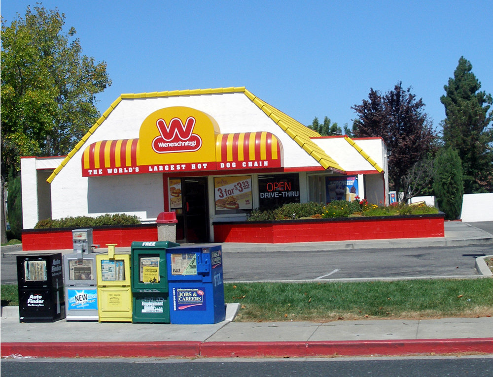 A Wienerschnitzel fast food restaurant in Sunnyvale. Photographed on September 12, 2005 by user Coolcaesar.